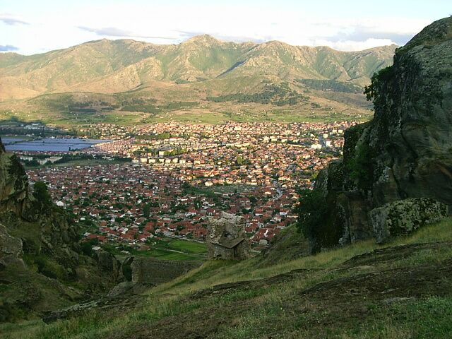 City of Prilep seen from neighbouring mountains, Republic of Macedonia